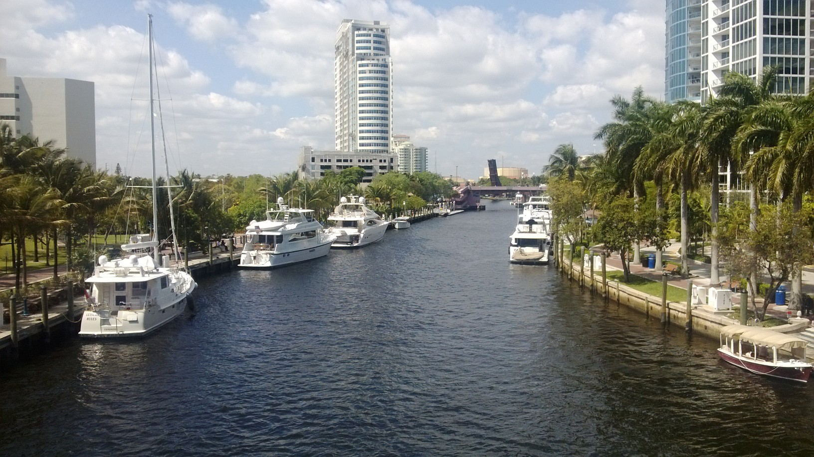 Fort Lauderdale Florida photo D Ramey Logan